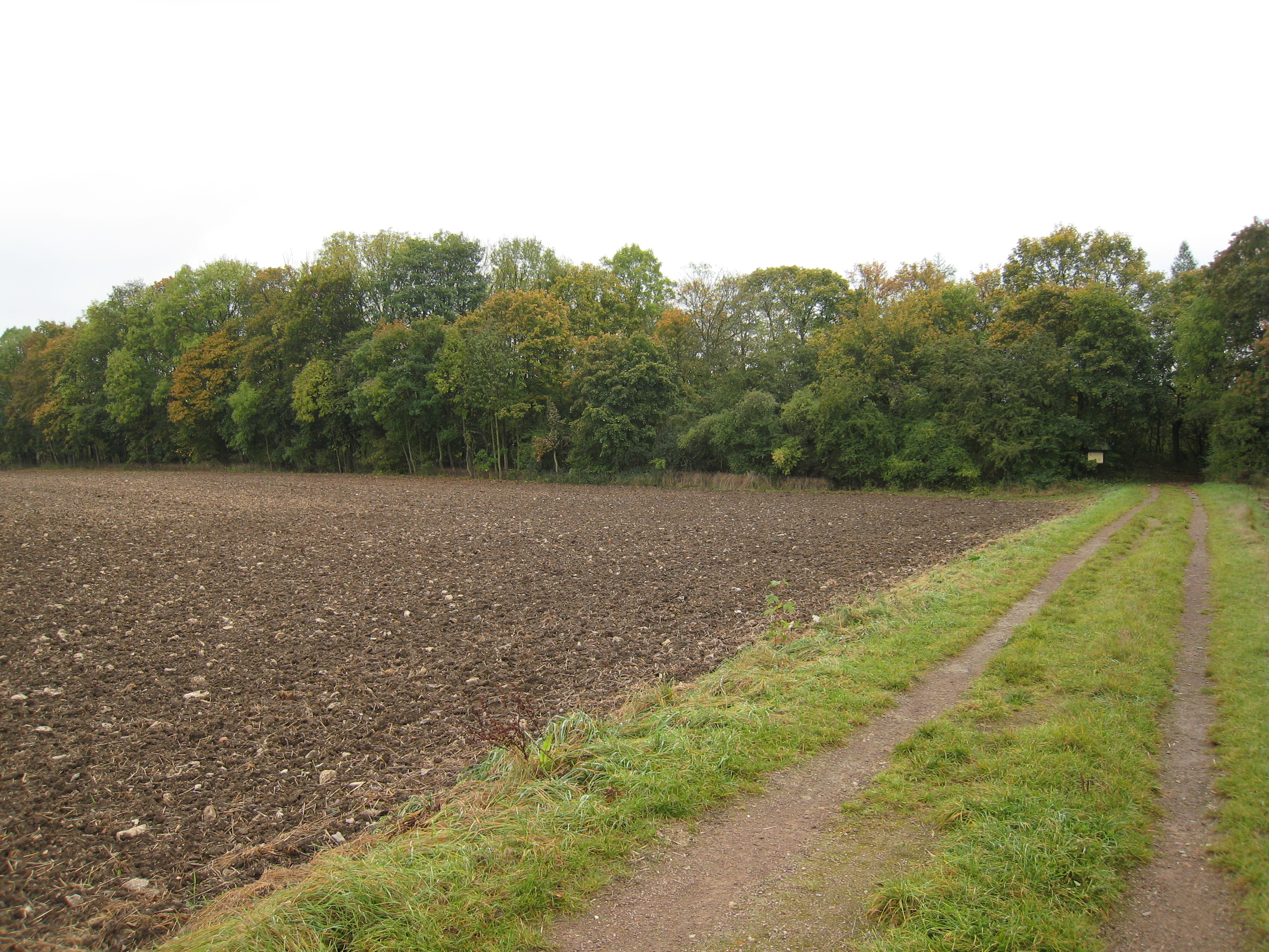 Alteburg Arnstadt 2